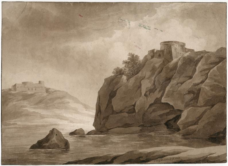 Drawing made by Humbert de Superville, Special Collections, Leiden University Library